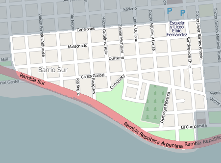 Map of Barrio Sur, Montevideo, Urugay